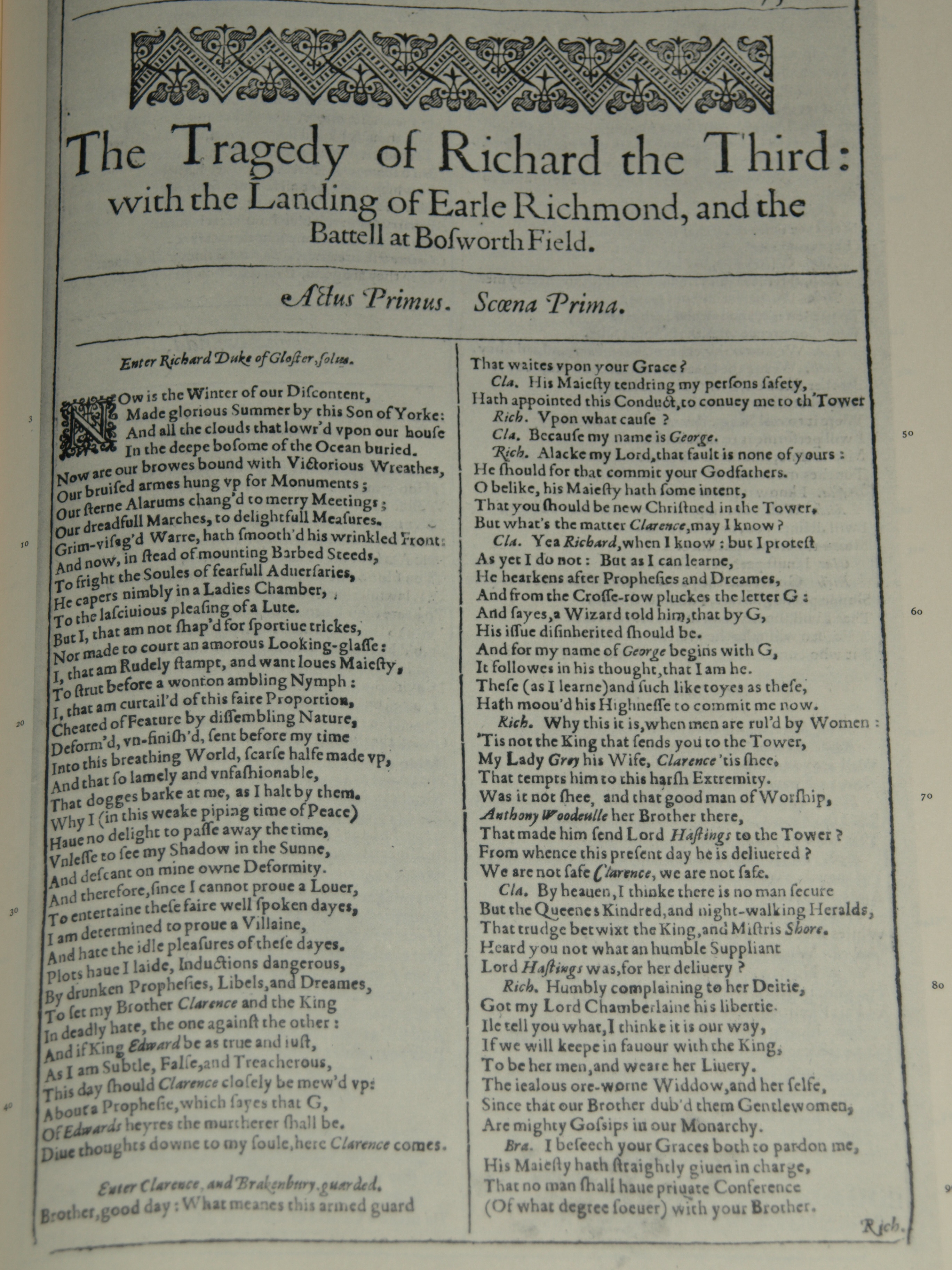 Photo of the first page of Richard III from a facsimile edition of the First Folio of Shakespeare's plays, published in 1623